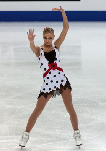 Katarina GERBOLDT at the 2008 European Championships.